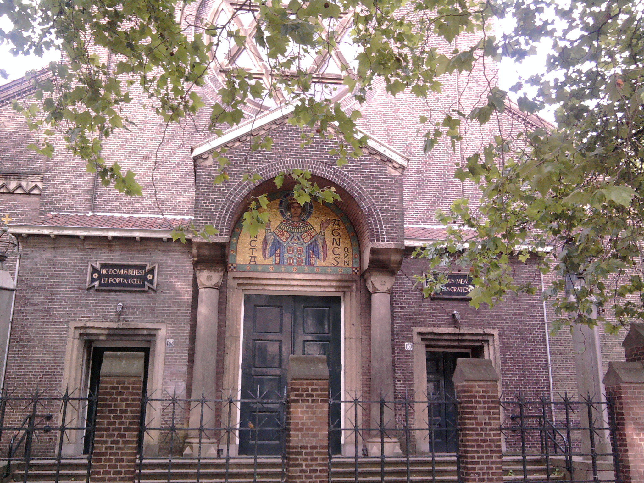 Agneskerk, in Amsterdam-Zuid, entrance